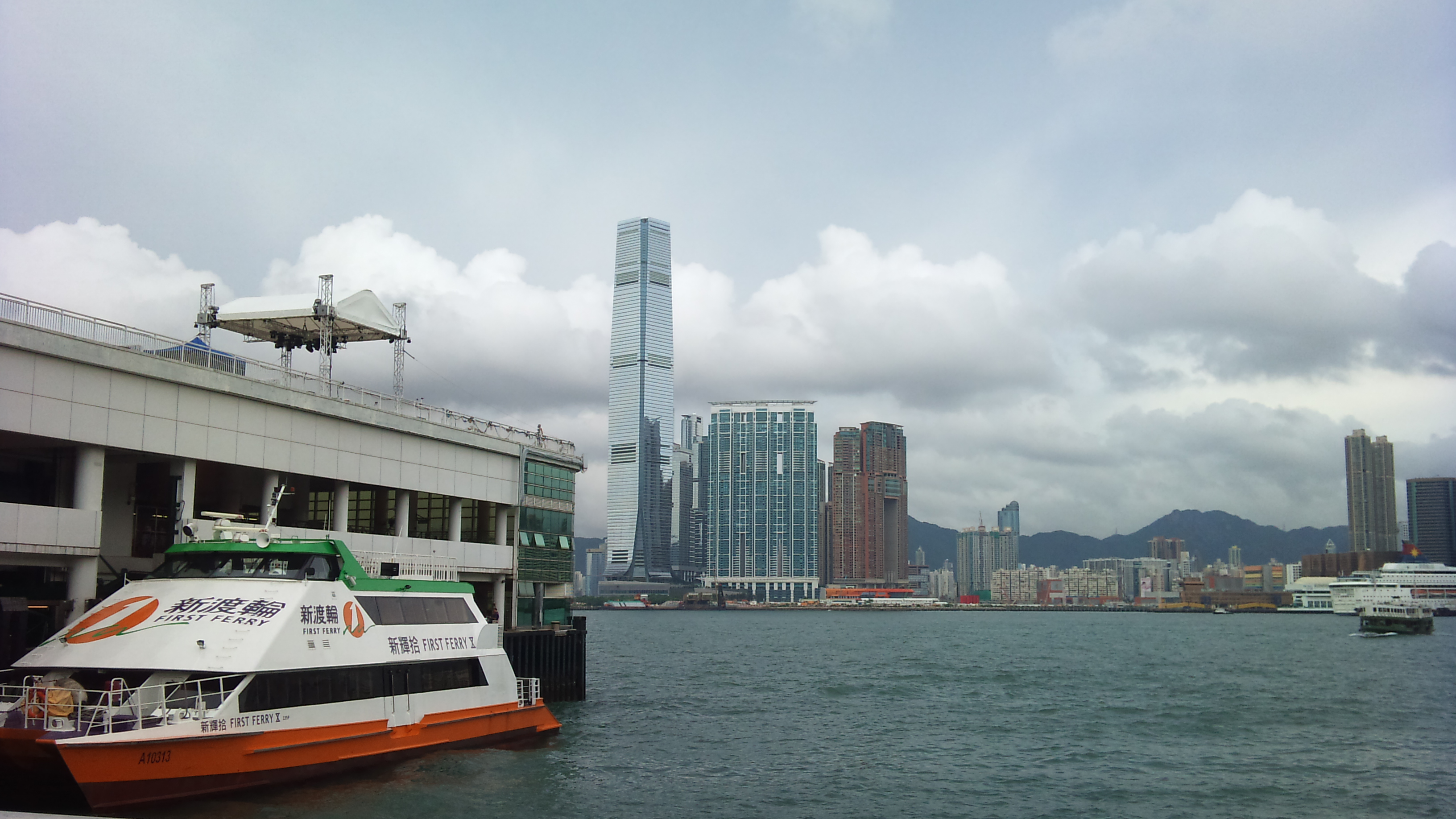 This is pier 6 in Central Ferry Piers, Hong Kong.